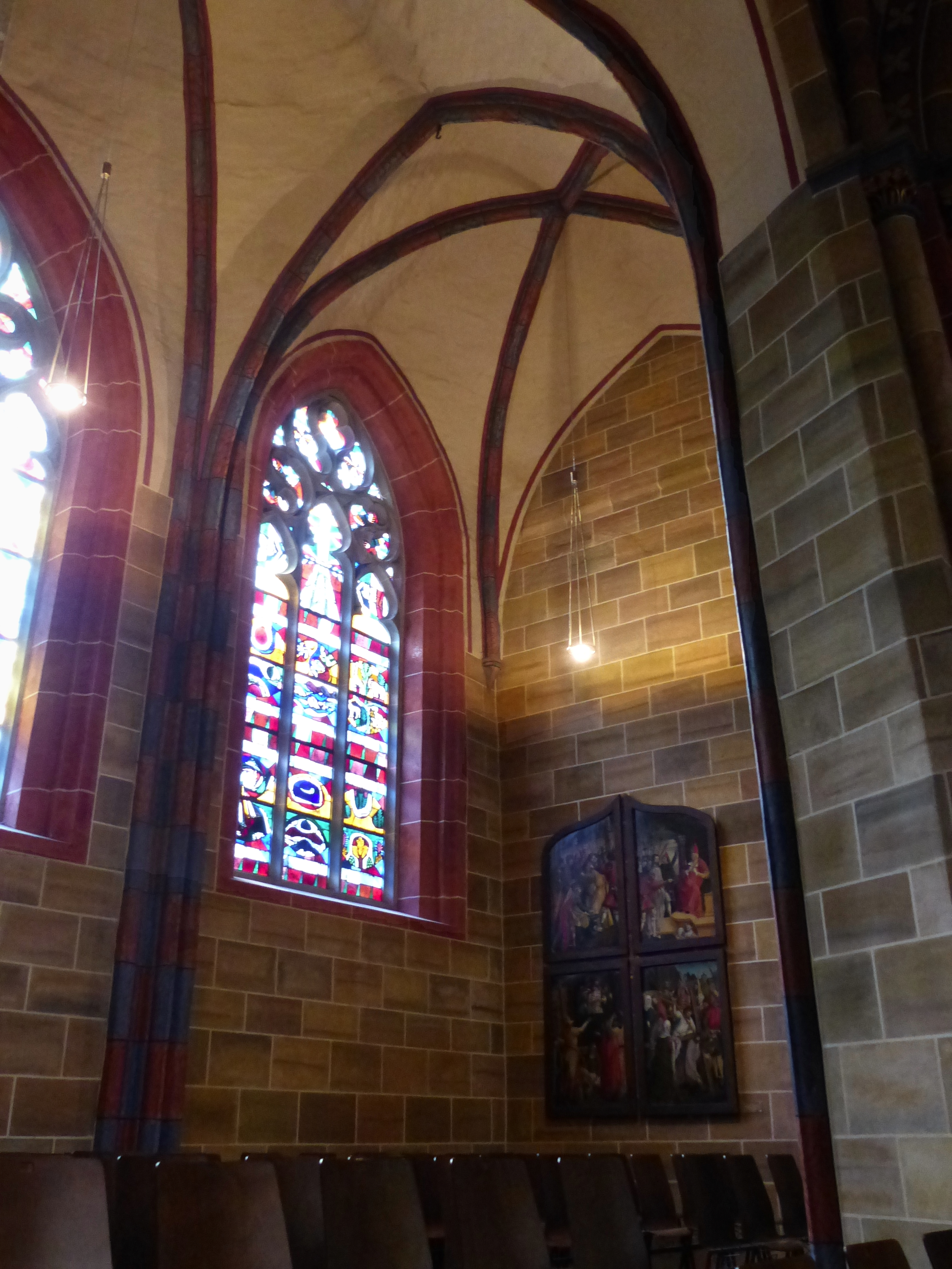 southwestern corner of the 1st chapel of Bremen cathedral (counted from the main entrance)